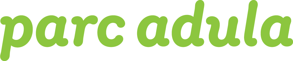 Parc Adula logo